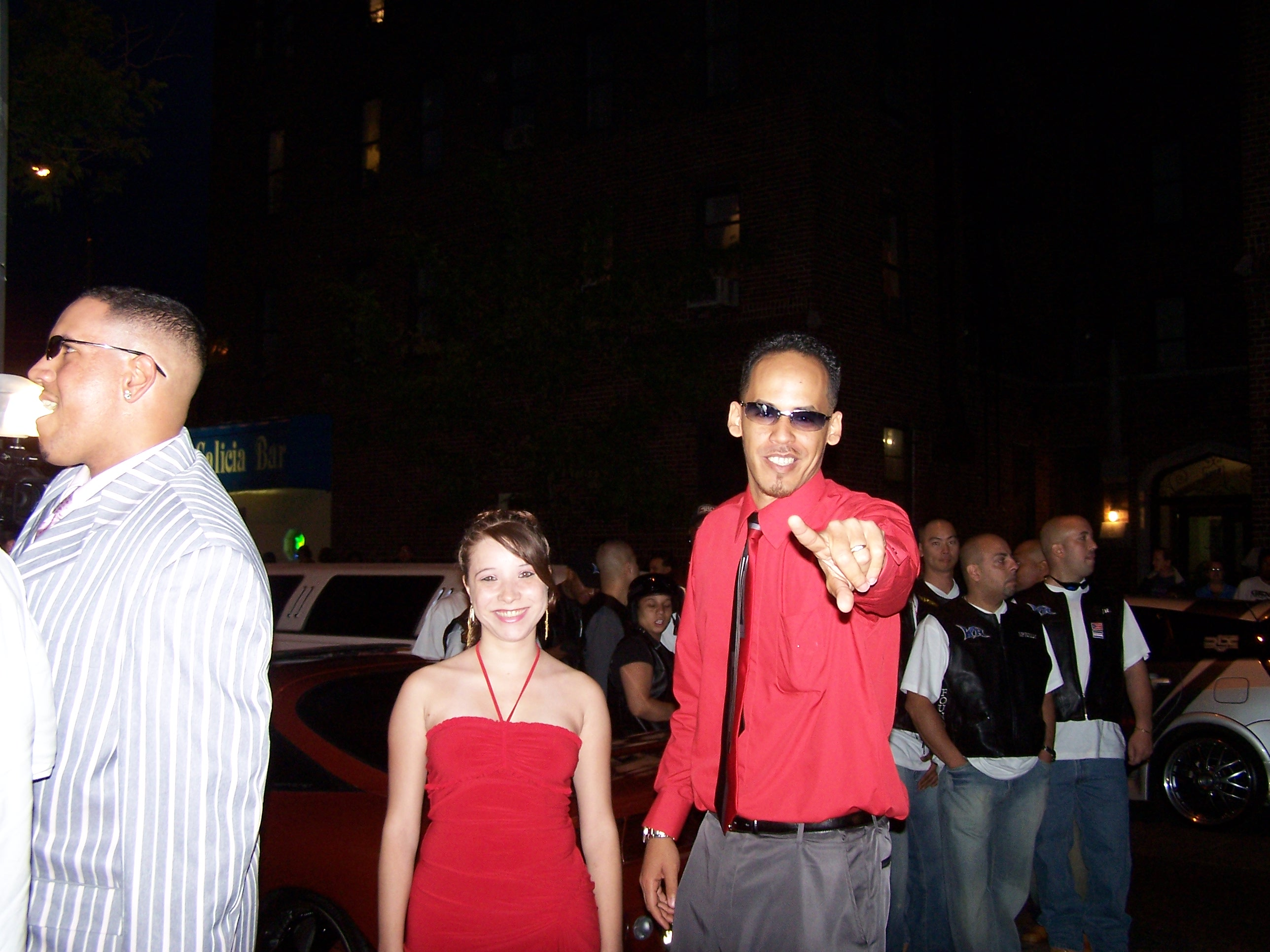 Big J y Yari just arriving at the red carpet of the 1er Premios Reggaeton USA 2006 at the Teatro Natives in Jackson Heights, Queens, NYC on April 2006.